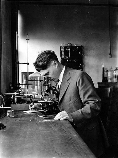 From John Cobb field notebook: Dr. C.R. Fellers at microscope. 1925 Subjects (LCTGM): Teachers--Washington (State)--Seattle Subjects (LCSH): Fellers, Carl A.; College teachers--Washington (State)--Seattle; University of Washington. College of Fisheries; Microscopes--Washington (State)--Seattle